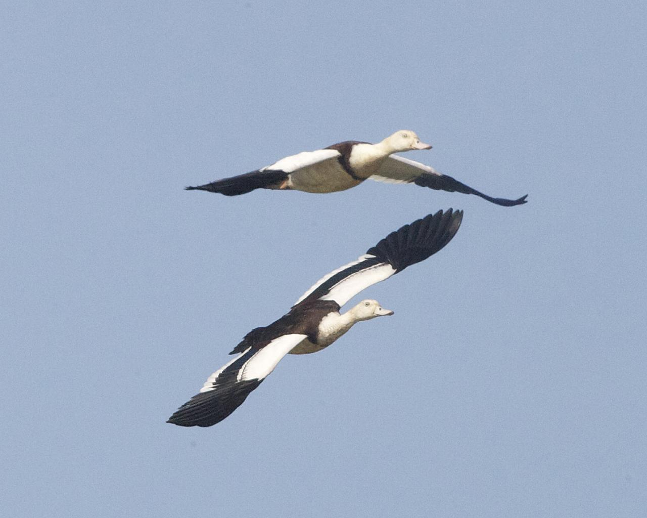 Radjah Shelduck Tadorna radjah Tadorna radjah rufitergum Mary River, Northern Territory, Australia 8 August 2010 690V9105